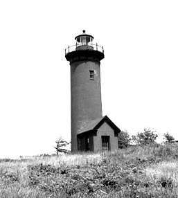 Long Island Head Lighthouse, Boston Harbor, Massachusetts, USA. This is the current (2009) tower, built 1900-01.